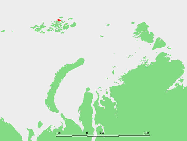 Nordensjelda Islands